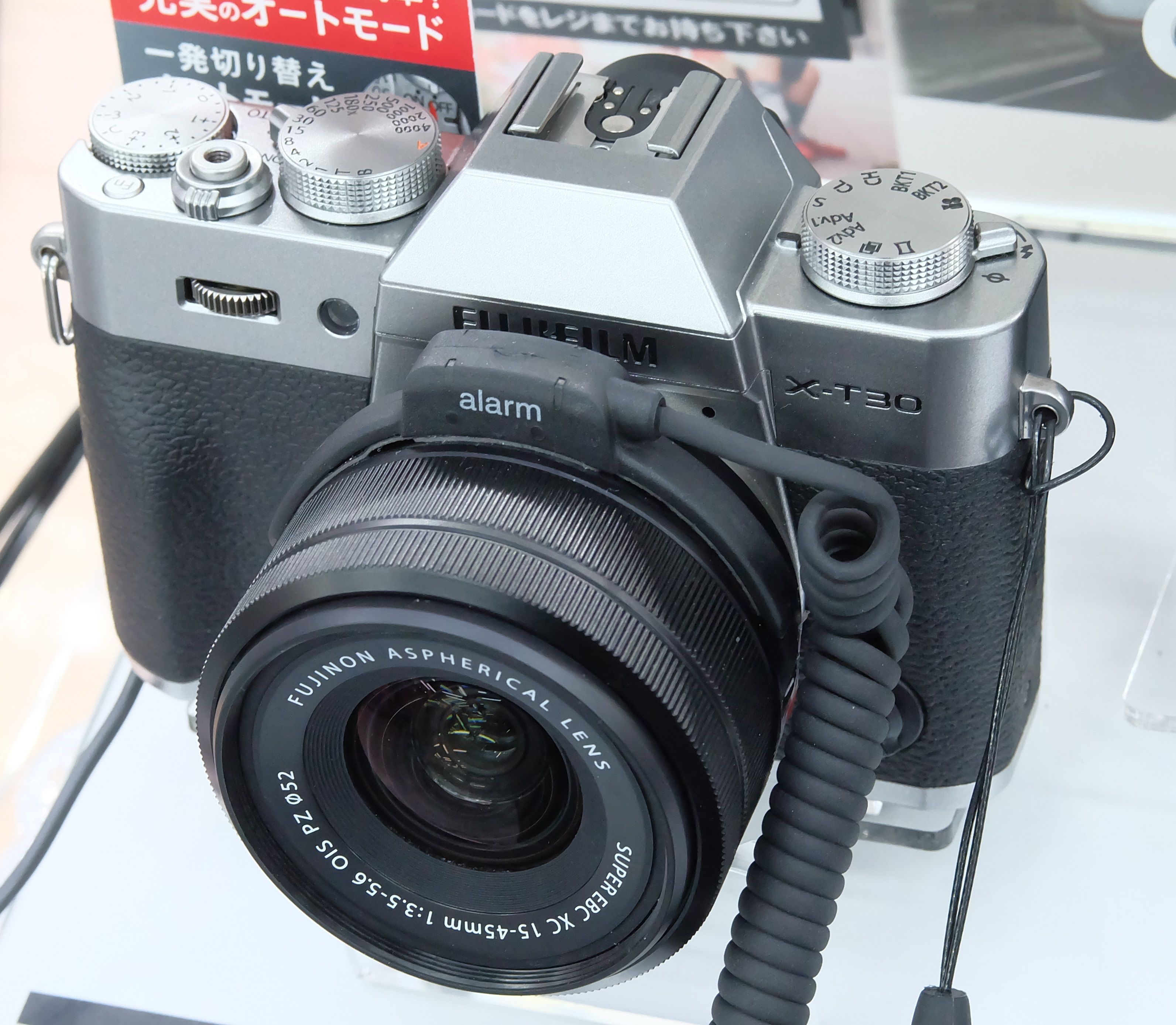 Fujifilm X-T30 (photo taken at Yodobashi Camera)